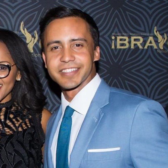 Bryan Llenas at the Bravo! National Awards